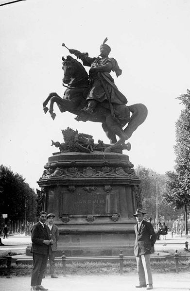 Monument to Jan III Sobieski in Lviv, photo made in the end of the XIX century.